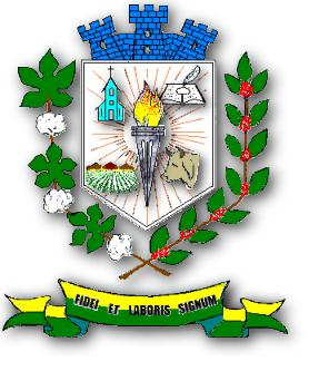 Coat of Quatá, a Brazilian city